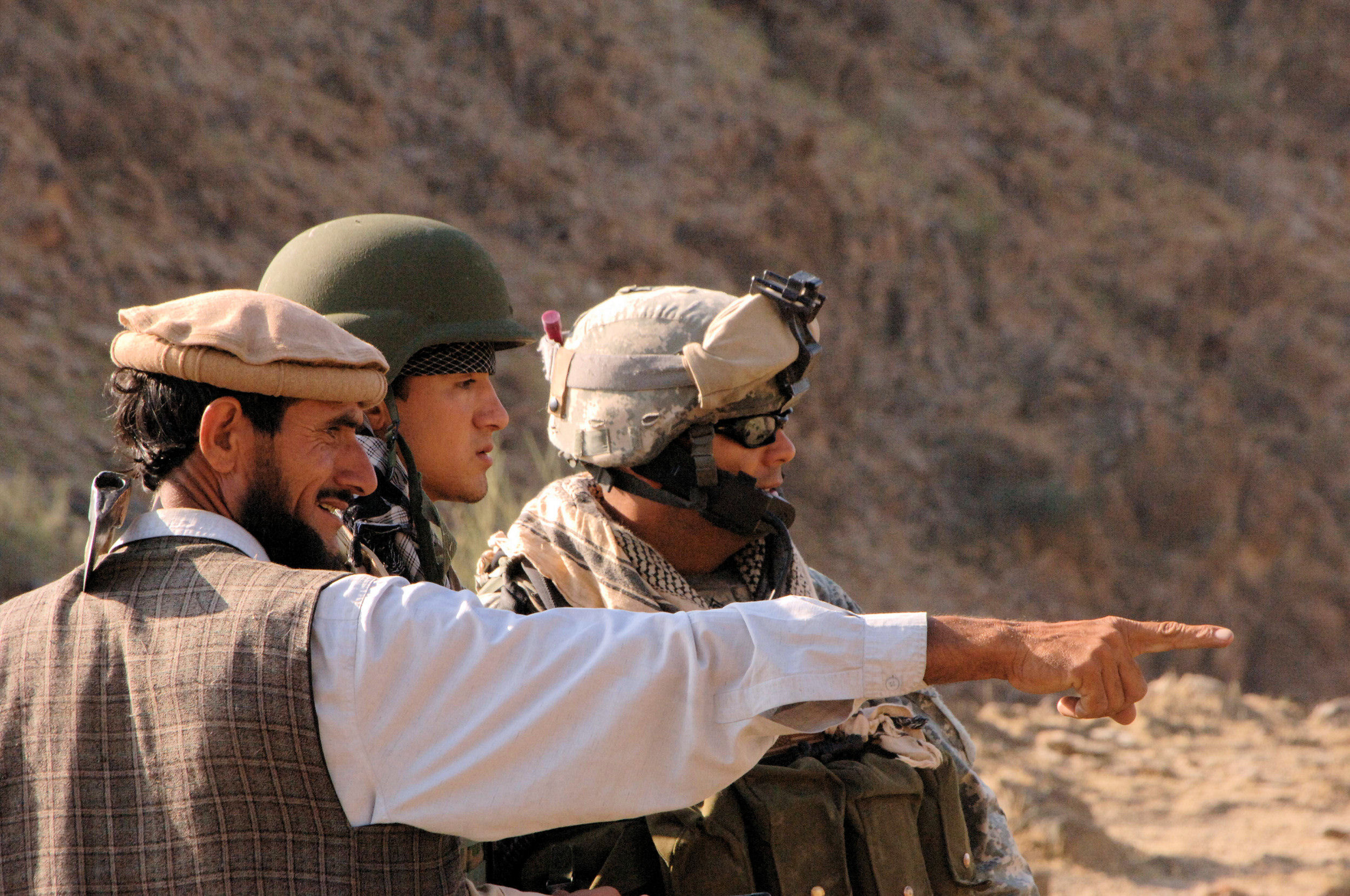 FOB KALAGUSH, Afghanistan (July 13, 2007) - U.S. Army Staff Sgt. Daniel Moncada (right) listens as an Afghan local and his interpreter discuss road activity at an observation post outside of Forward Operating Base Kalagush in the Nuristan province of Afghanistan on June 19, 2007. Moncada is attached to Charlie Company, 1st Battalion, 158th Infantry Regiment, Arizona Army National Guard. Photo by Staff Sgt. Isaac A. Graham, U.S. Army.